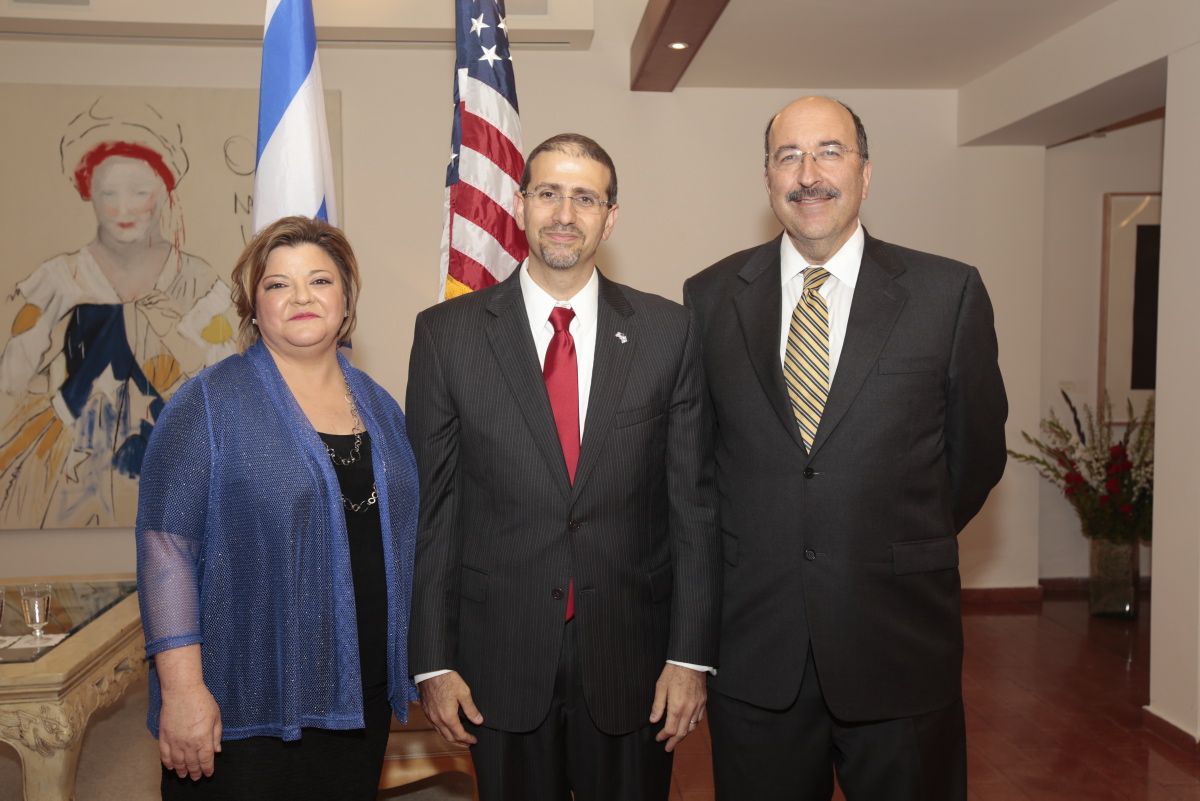 July 4th 2015